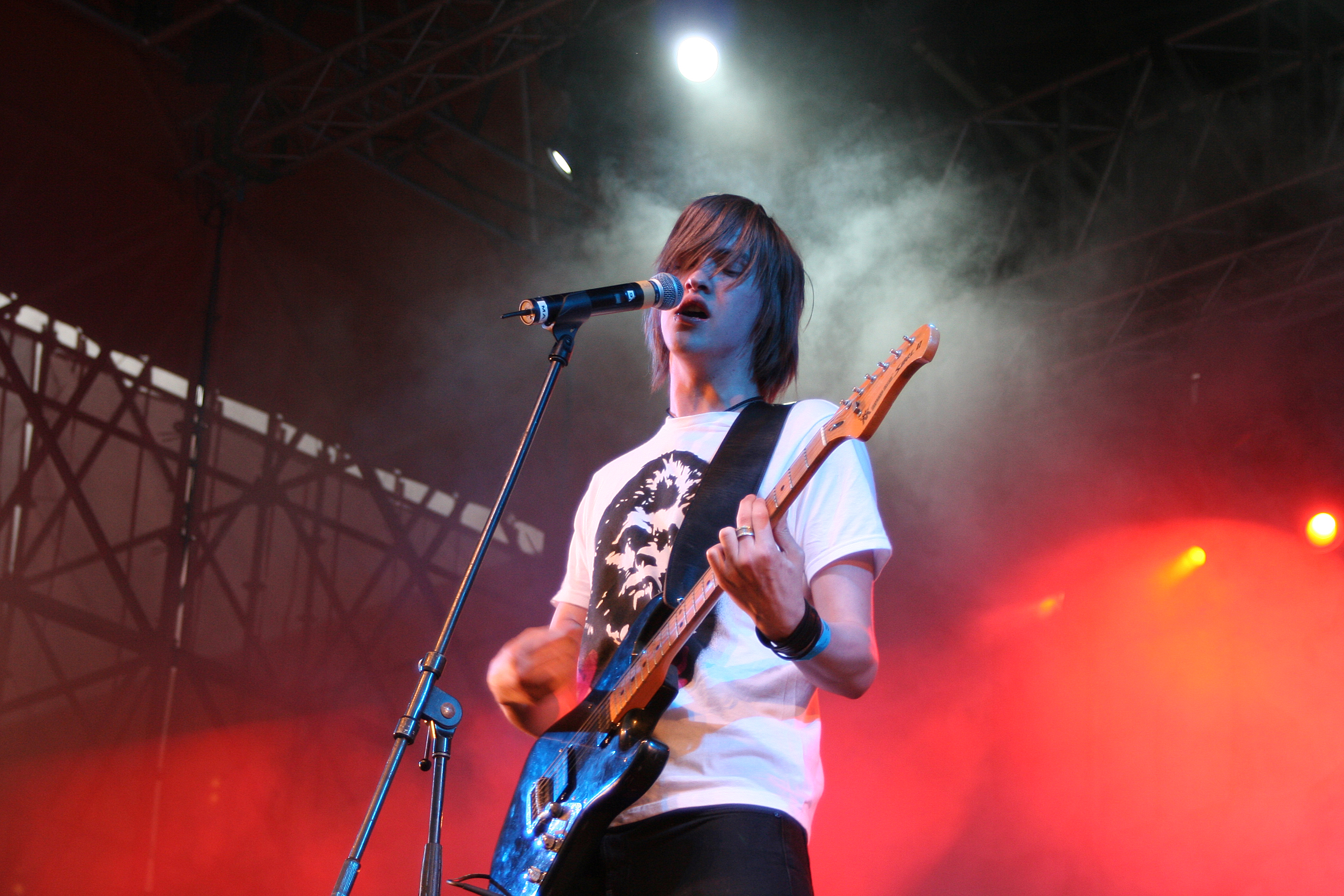 Empty Trash (Max Buskohl) at "Schlossgrabenfest 2008" in Darmstadt, Germany